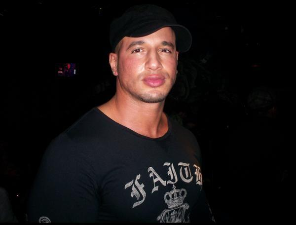 Picture taken in March 2008 during an event attended by Quentin Elias off stage at the Village Underground in New York